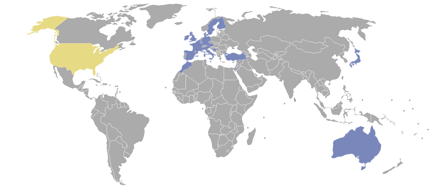 Countries participating in the competition for the Golden Palm 2011 (incl. coproduction countries)